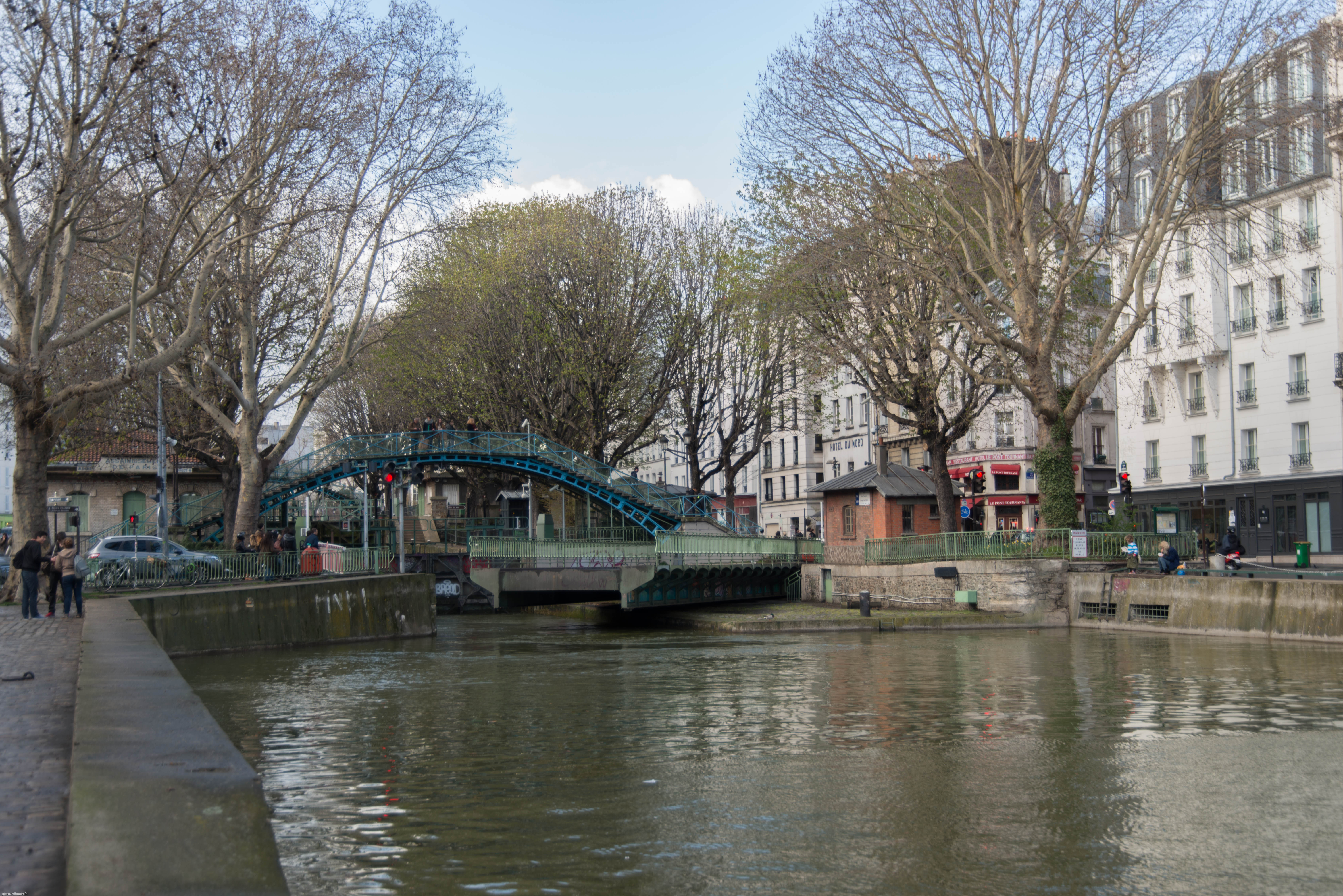 Swing Bridge grange-aux-belles, canal Saint-Martin, Paris